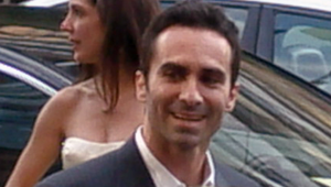 Actor Nestor Carbonell arrives at The Dark Knight premiere in New York City, United States